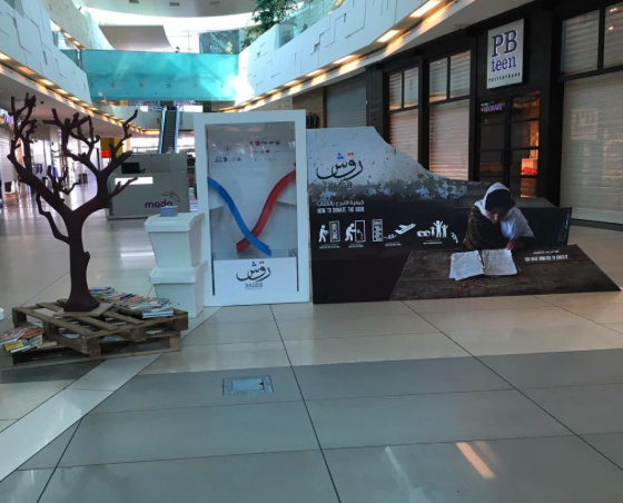 During the campaign in the Avenues.